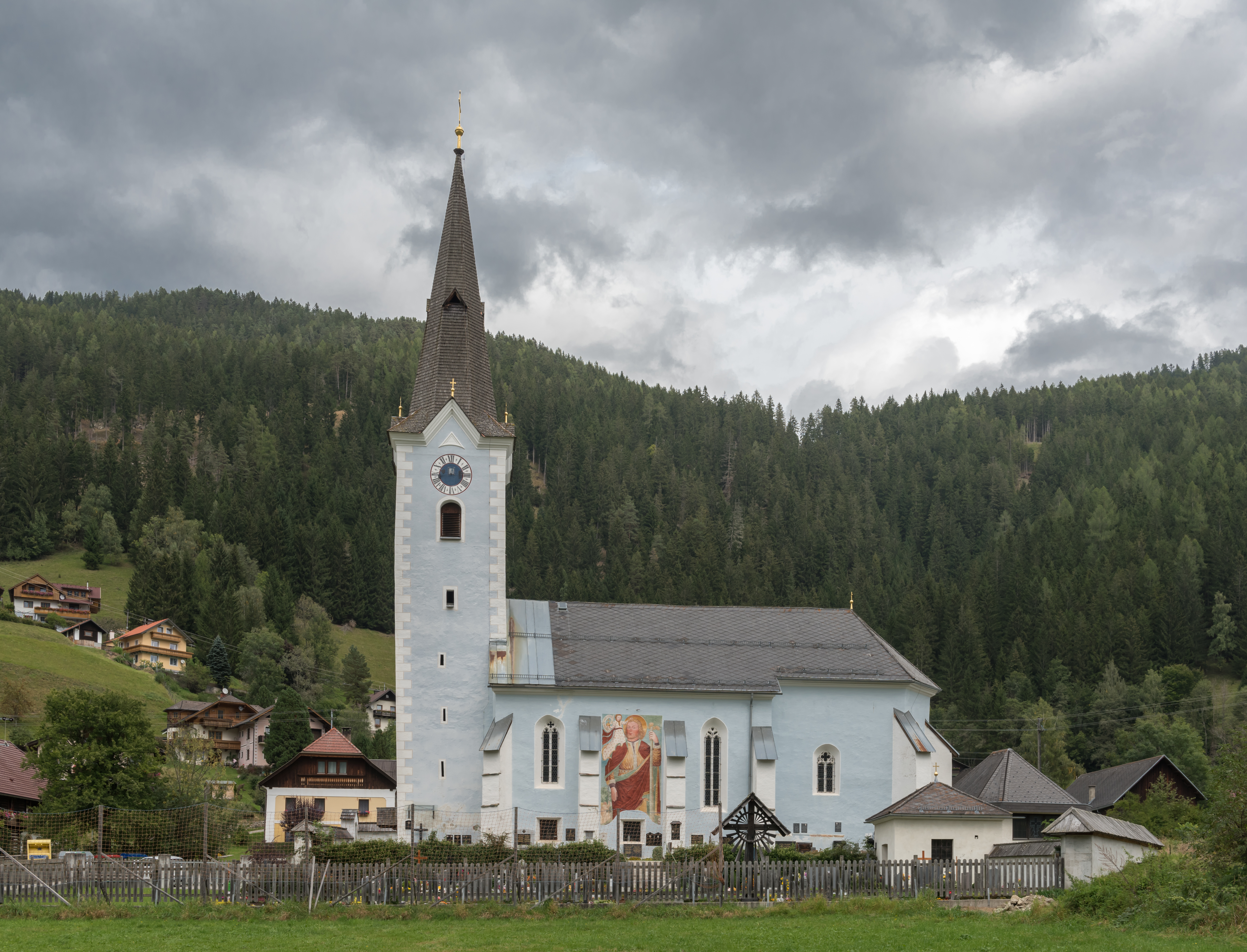 Catholic parish church Saint Margaret in Sankt Margarethen #1, municipality Reichenau, district Feldkirchen, Carinthia, Austria, EU